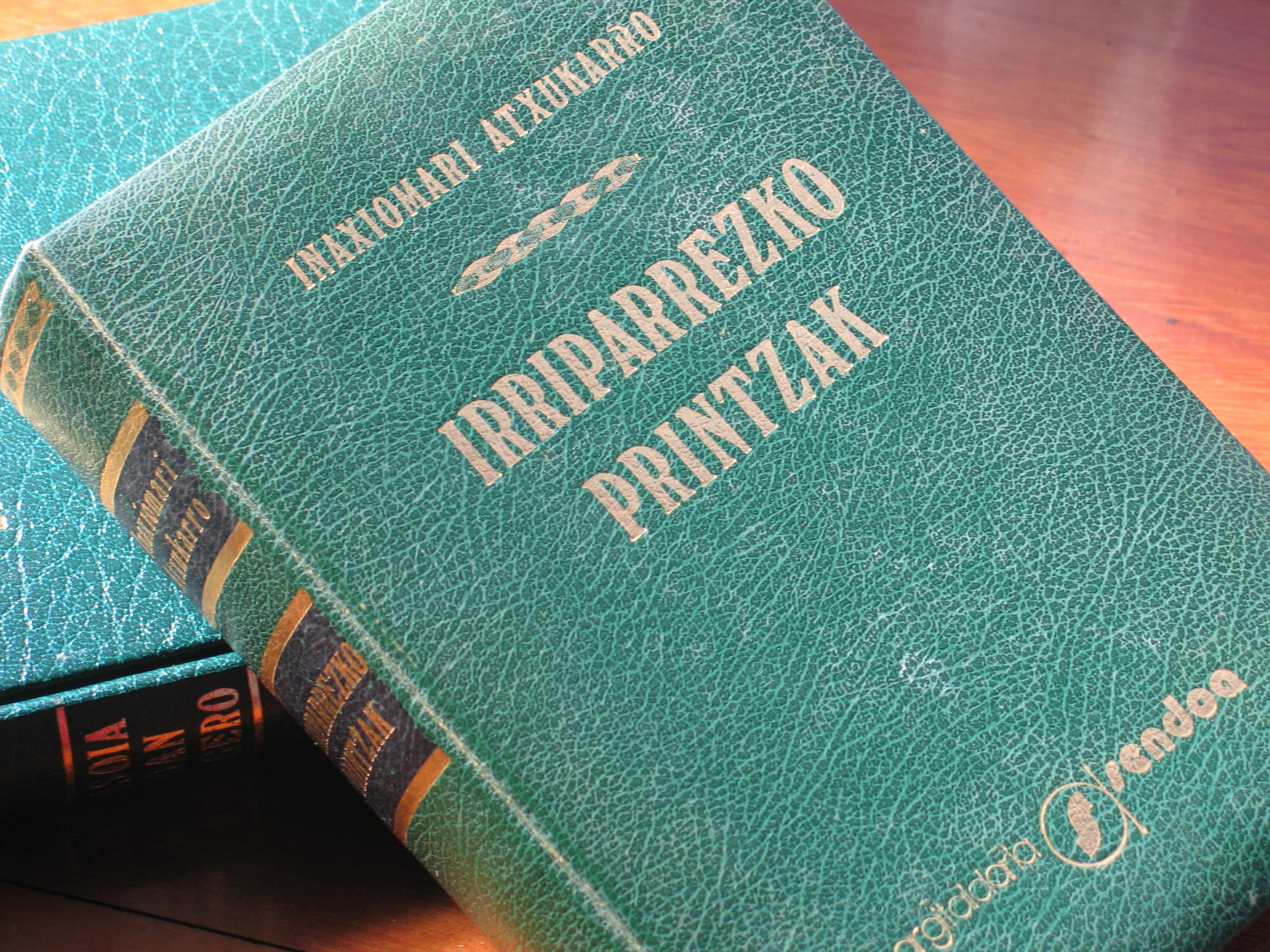 Basque writer's work Inaxiomari Atxukarro .